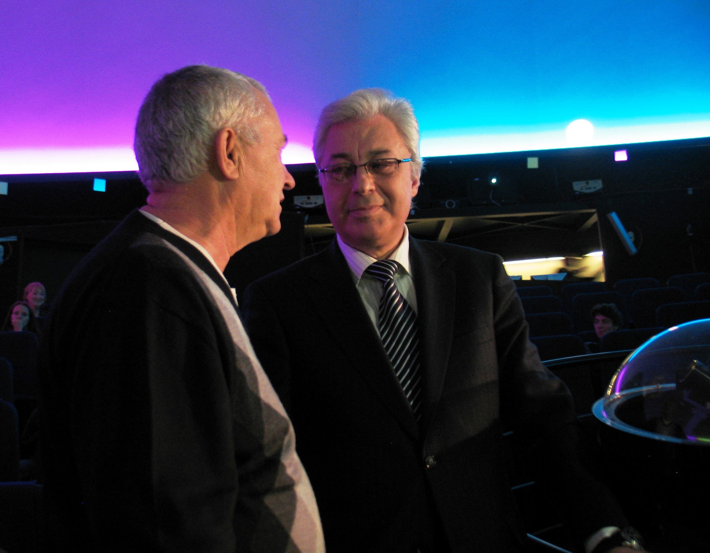 Yuri Silajew and Yuri Mikhailovich Baturin on the 5th Russian Film Festival "Sputnik on Polish" in Warsaw (20 November 2011).